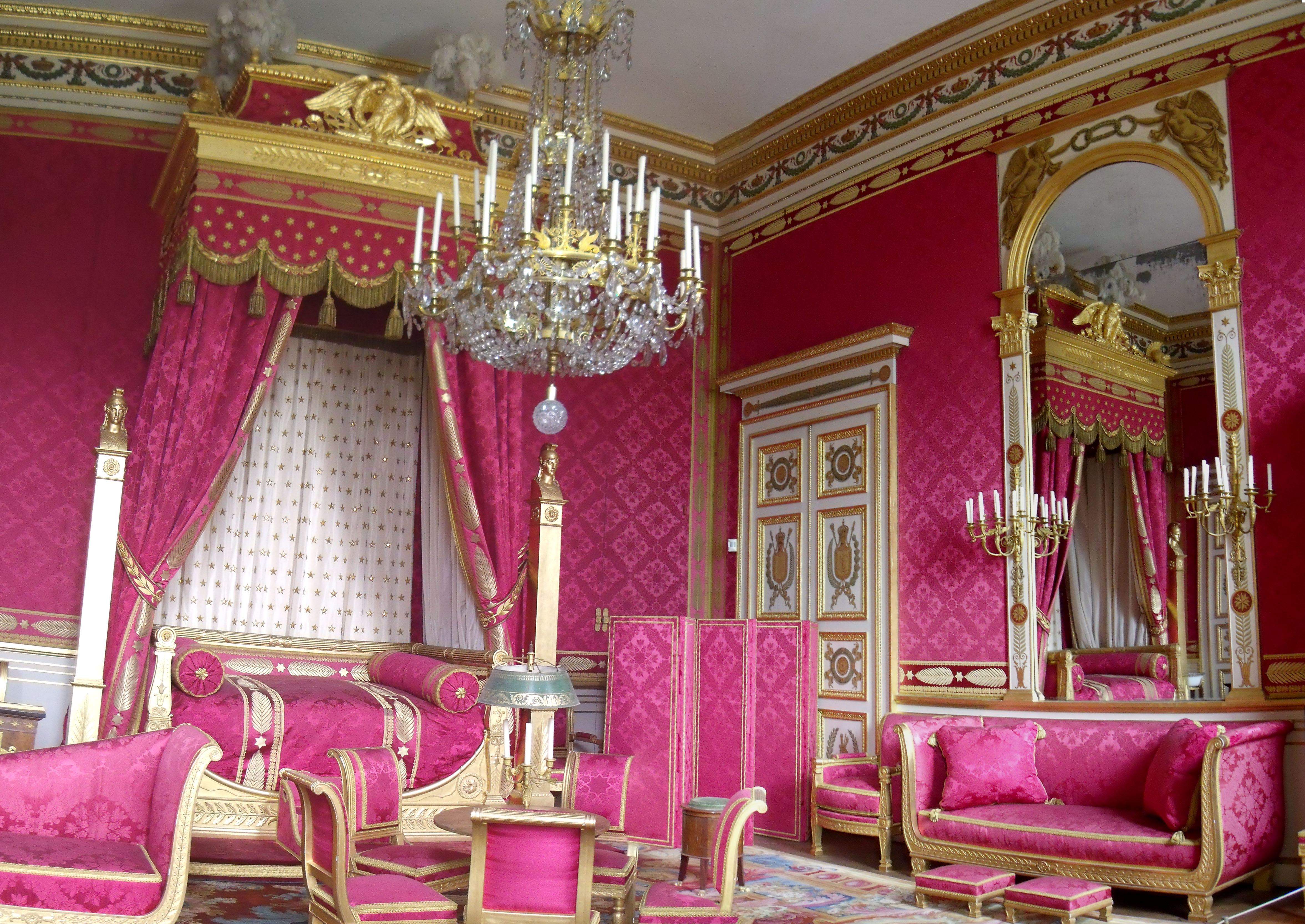 Bed chamber of Napoleon the first, Palace of Compiègne.